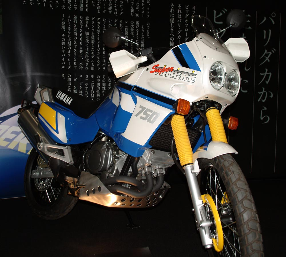 YAMAHA XTZ750 (Super Tenere)